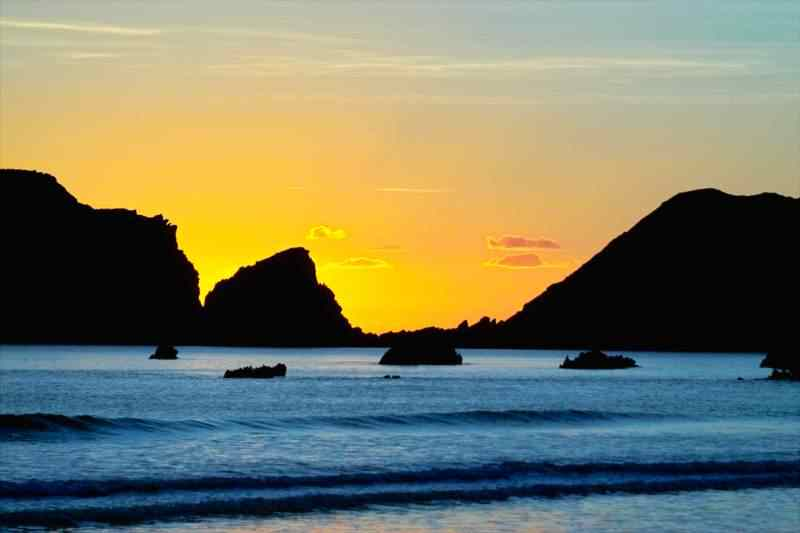 Marloes Sands, Pembrokeshire, Wales, UK at sunset